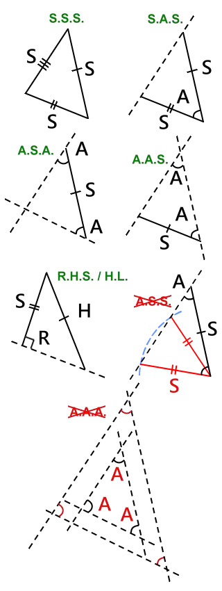 The reasons and definition of congruent triangles.